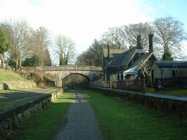 Great Longstone Station. Station on the Monsal Trail looking towards Matlock.